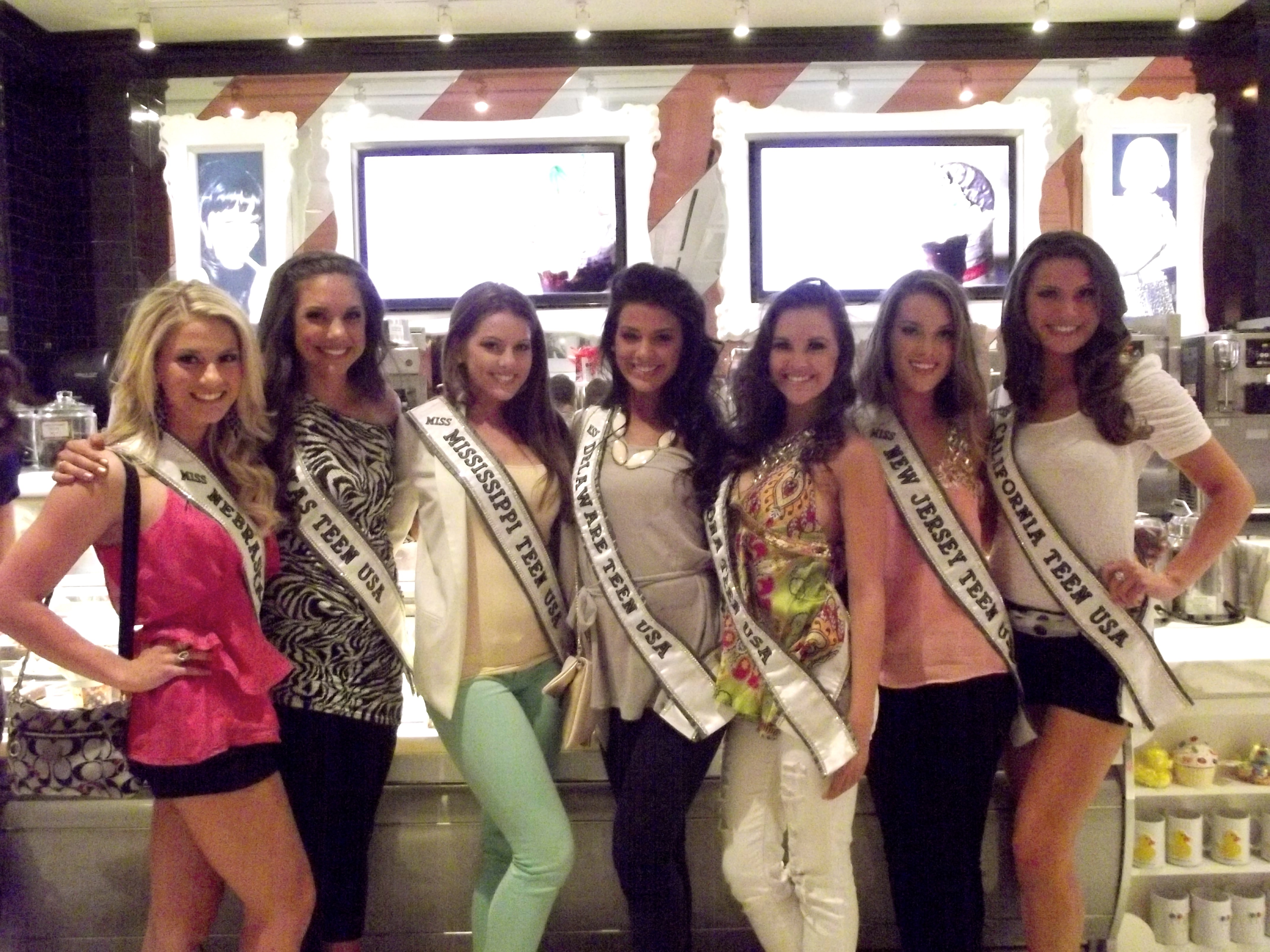 Miss USA 2018 Sarah Rose Summers (far left) pictured with other Miss Teen USA 2012 contestants at the Miss USA 2012 pageant in Las Vegas, Nevada